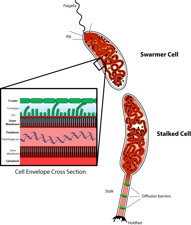 Caulobacter crescentus is a gram negative, oligotropic, dimorphic alphaproteobacterium that is recognizable by its eponymous crescent shape.